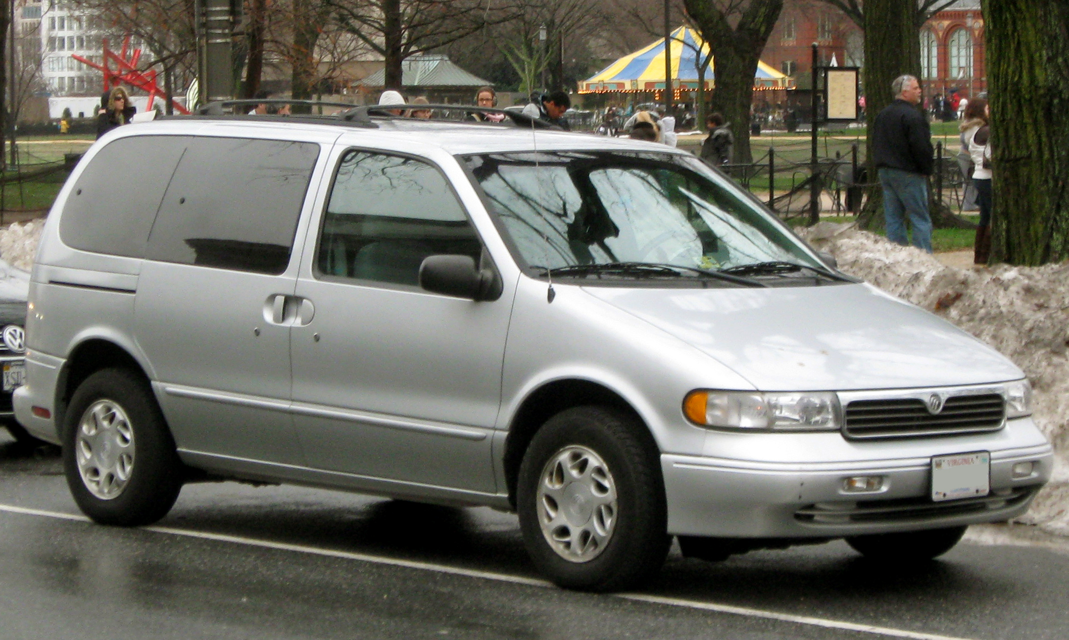 1996-1998 Mercury Villager photographed in Washington, D.C., USA.